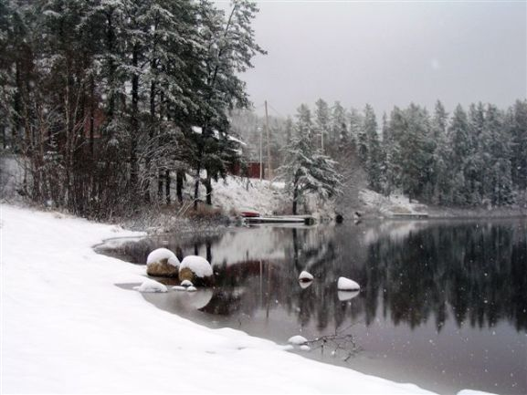 Parent, Québec